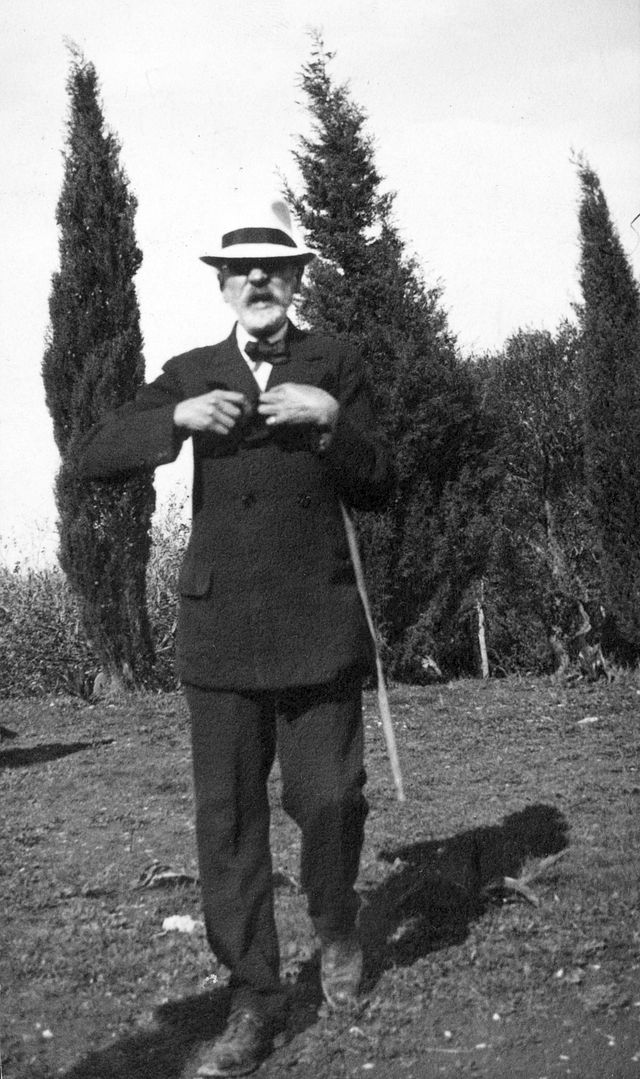 Axel Munthe (1857–1949).